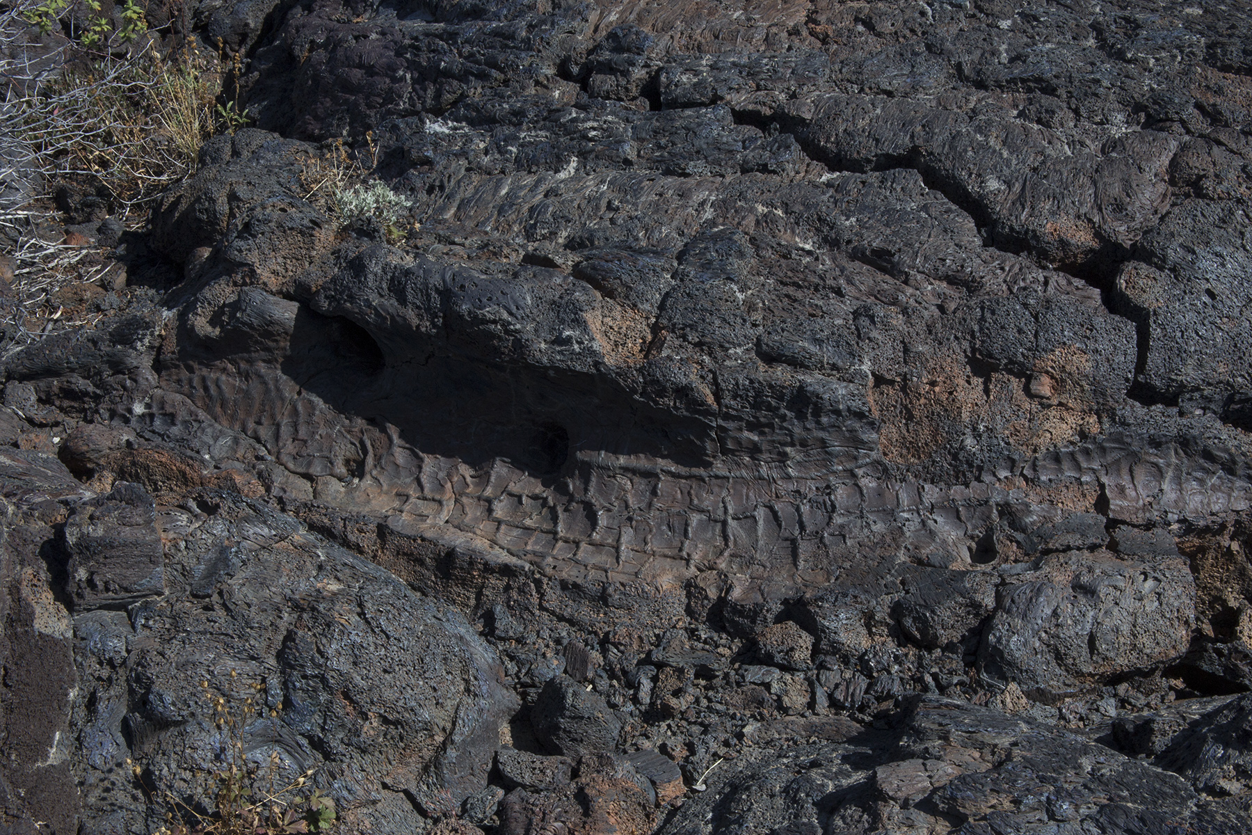 Tree mold showing bark in the basalt at Craters of the Moon National Monument west of Arco, ID